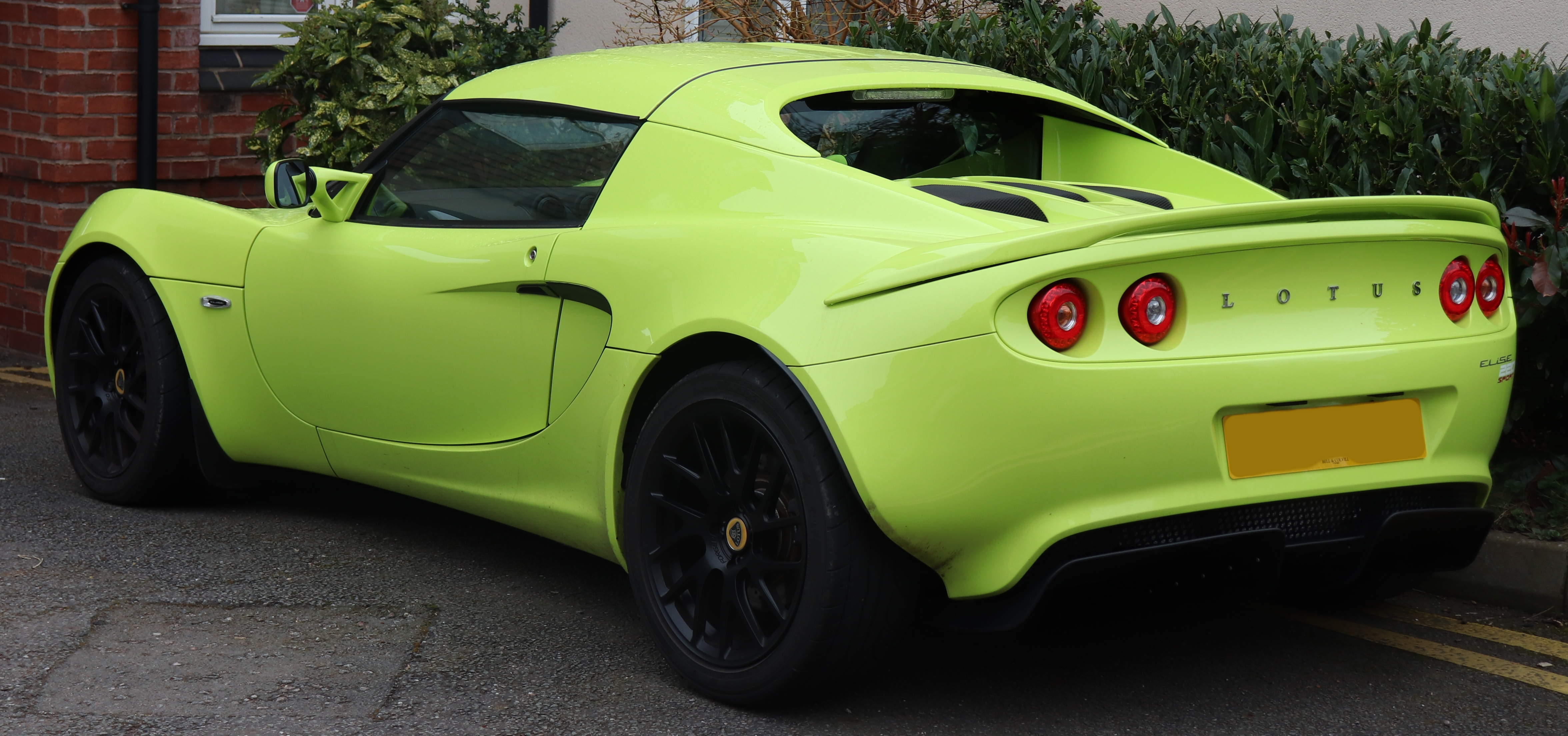 2016 Lotus Elise S 1.8 Rear Taken in Warwick